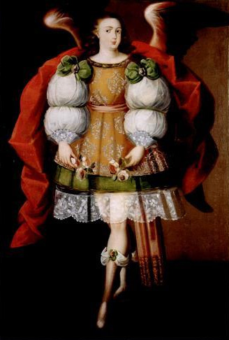 Angel Barachiel by Master of Calamarca. Original painting is in the church of Calamarca, Bolivia.